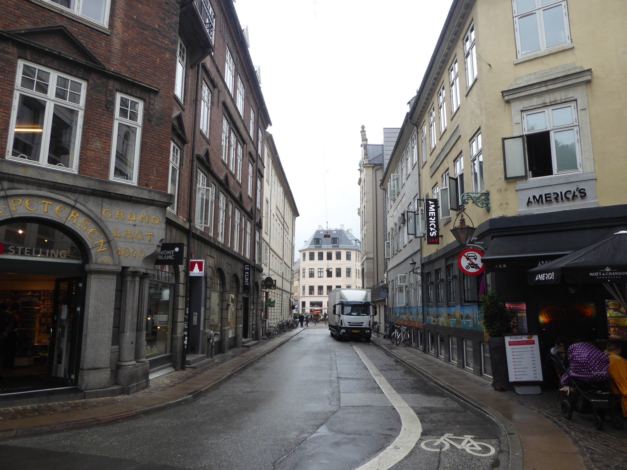 The street Store Kirkestræde at Nikolaj Plads in Indre By in Copenhagen.